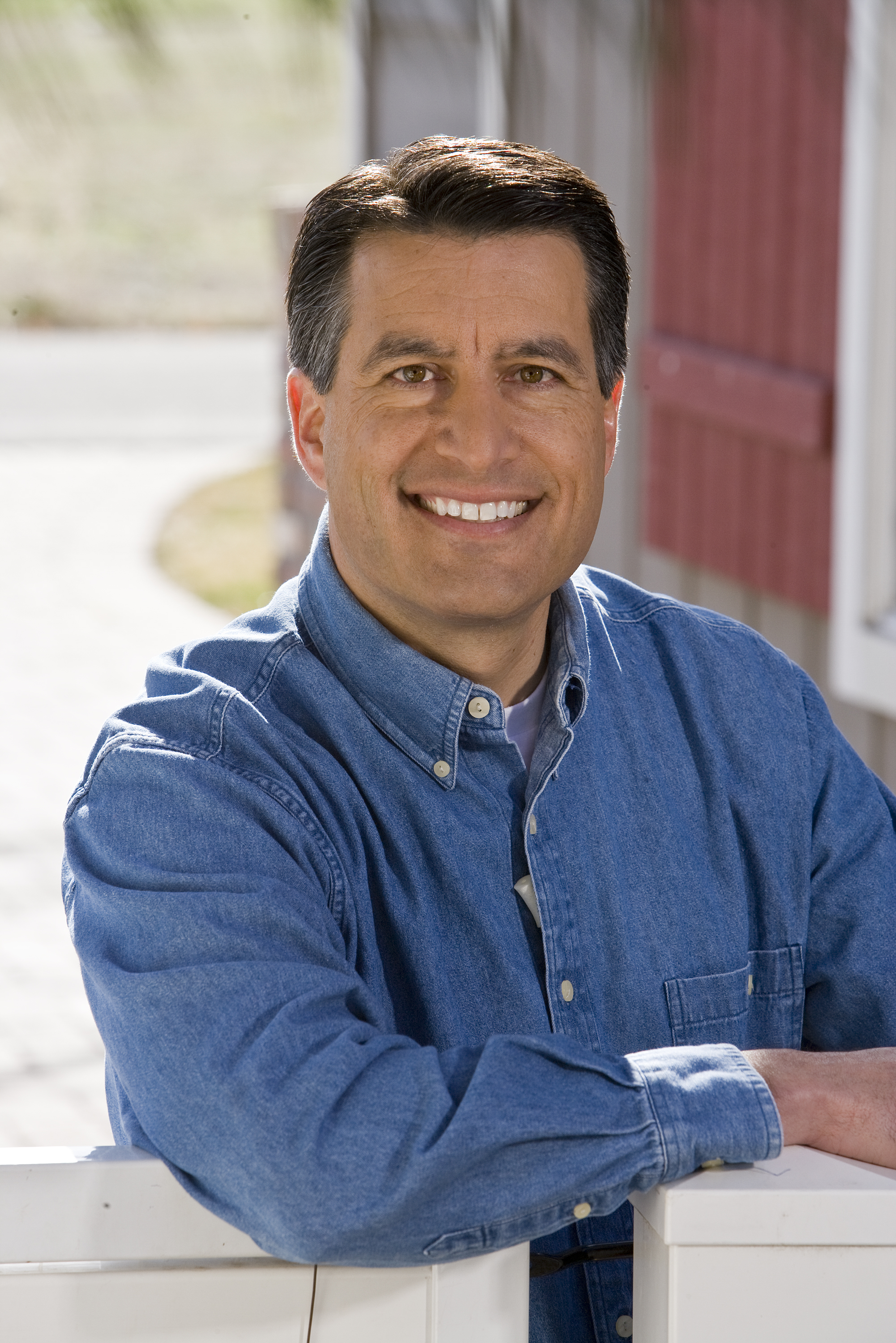 Brian Sandoval, elected Governor of Nevada in 2010